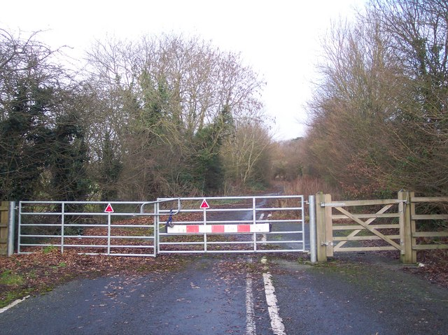 End of the Road near Grantham Hall Farm The B2100 road from Lamberhurst used to head up this road towards the A21 Hastings Road. This section of the road has been closed and reclassified as a byway heading to the A21 (a route for cyclists and pedestrians). This is due to the Lamberhurst Bypass, taking a lot of traffic (including lorries0 out of the village.